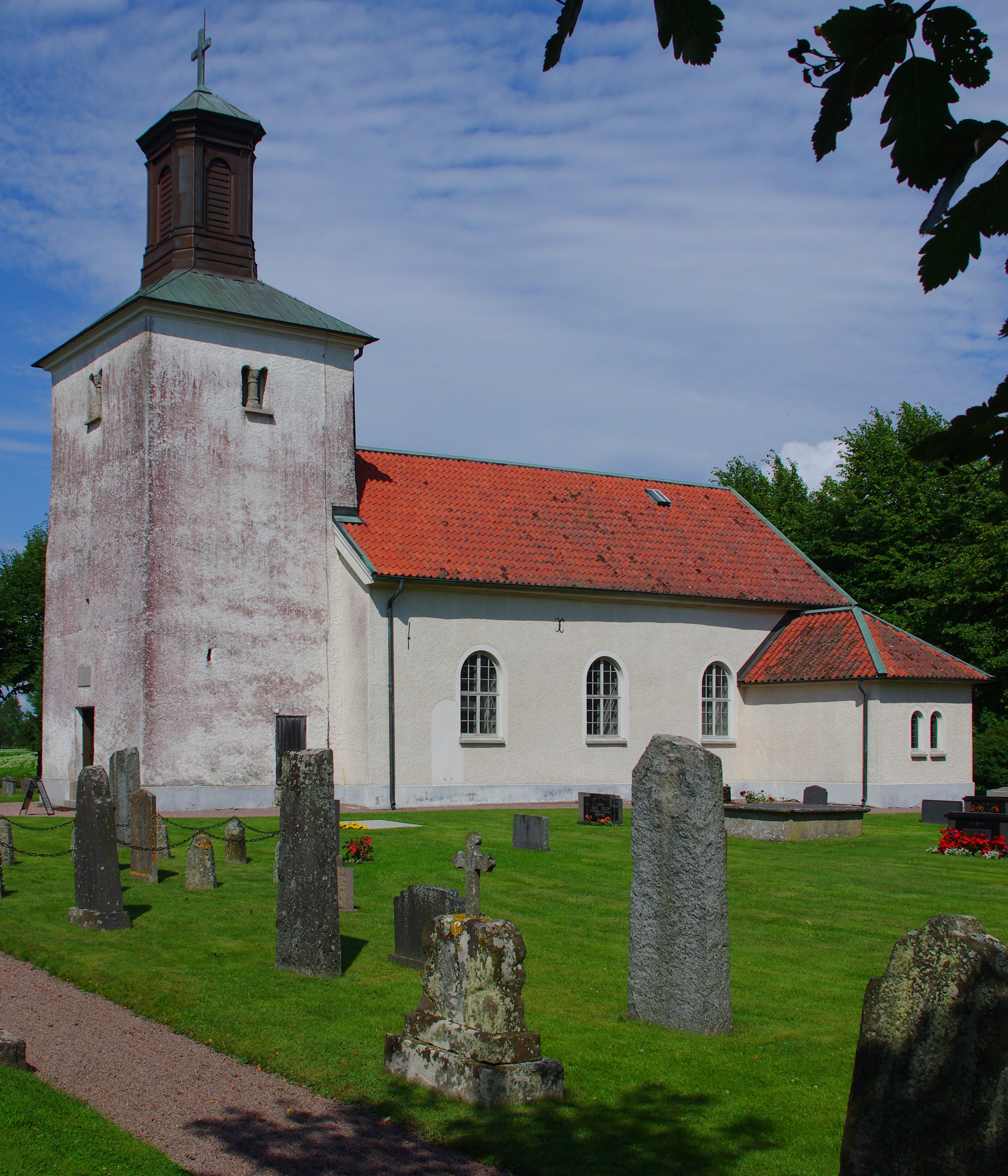 Händene kyrka (swedish:Händene church) in Händene parish, Skåning hundred, Västergötland and Skara municipality, Västragötaland county, Sweden.